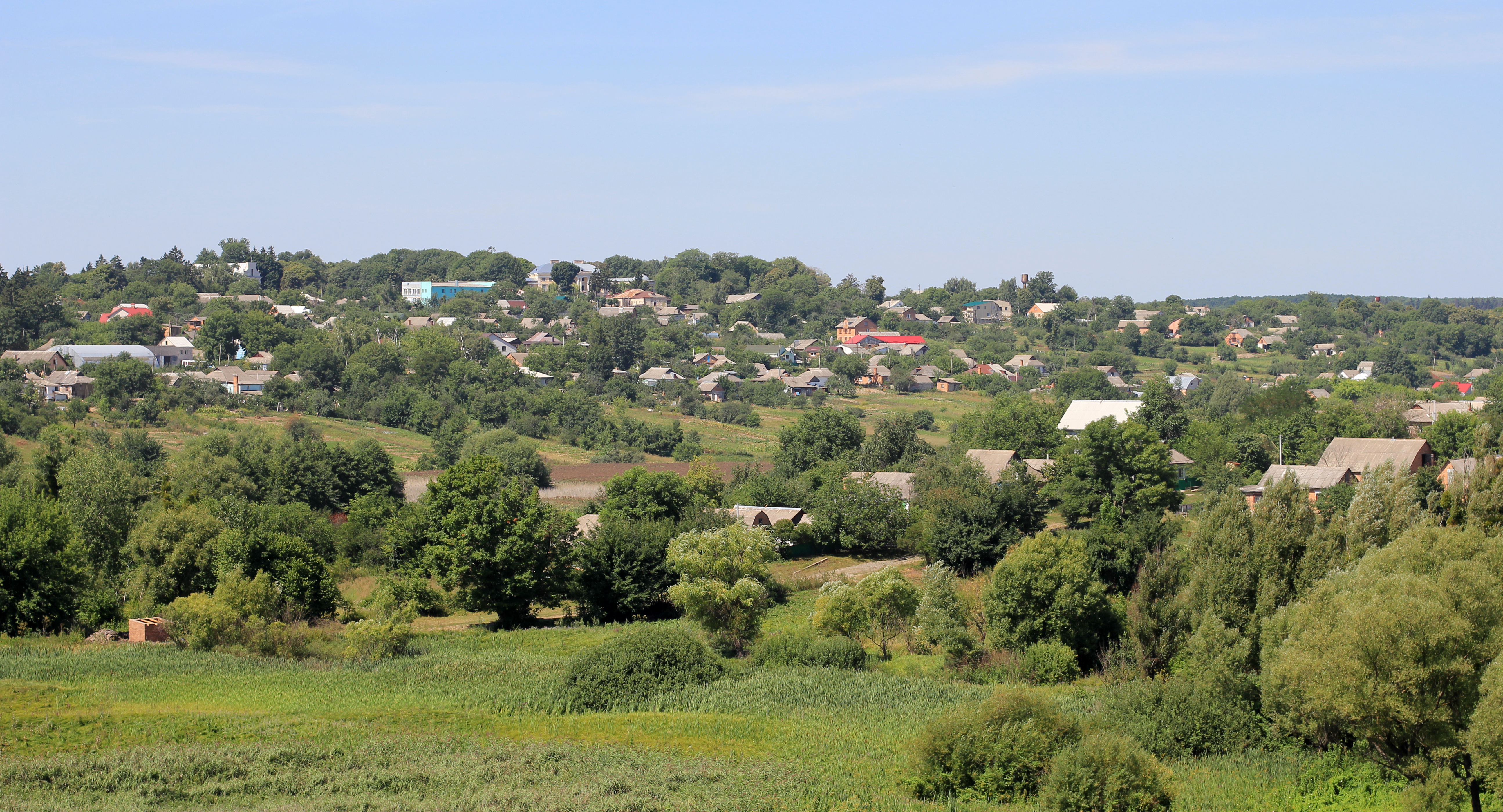 Urban-type settlement Voronovytsia in Vinnytsia Raion. Ukraine.